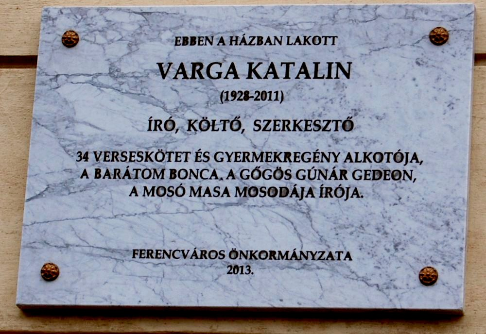 Katalin Varga (writer) commemorative plaque in Budapest District IX, Közraktár Street No 12/A